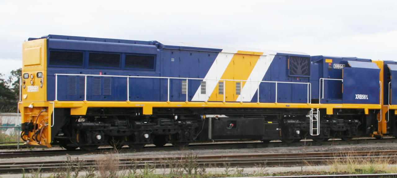 Australian diesel locomotive (cabless slave unit) XRB 561 at the South Dynon motive power centre, Melbourne